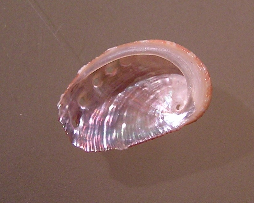 Haliotis varia f. dohrniana Dunker, 1863, an abalone from the family Haliotidae; Philippines